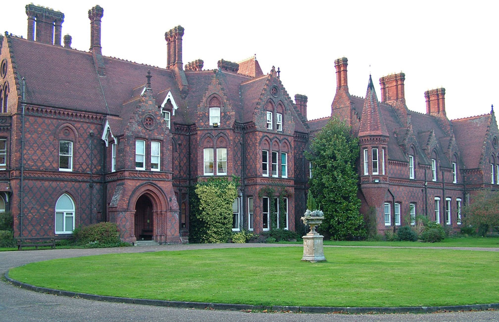 Easneye House